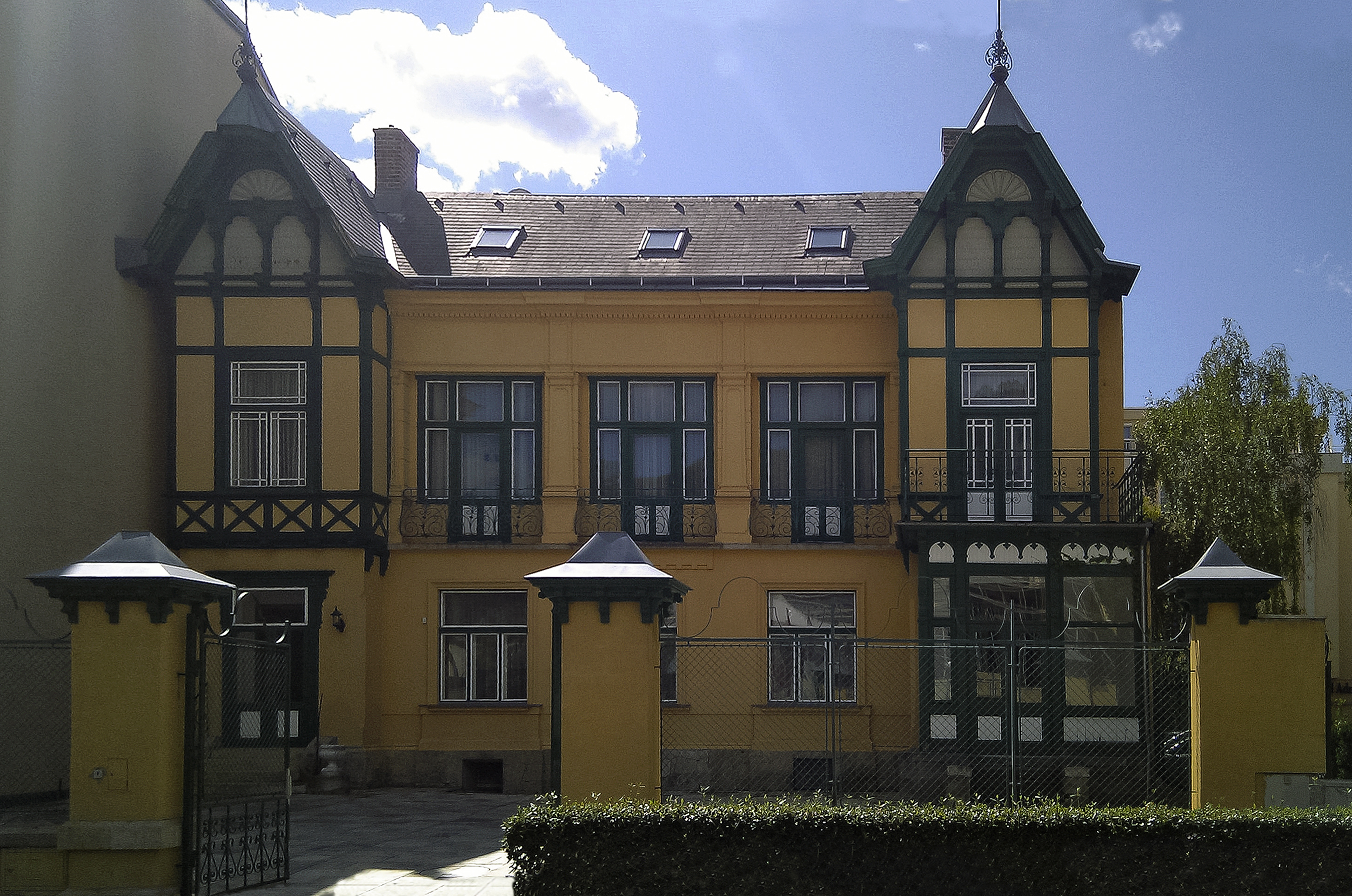 Villa Wiltschko Baden, Kaiser Franz Ring 6